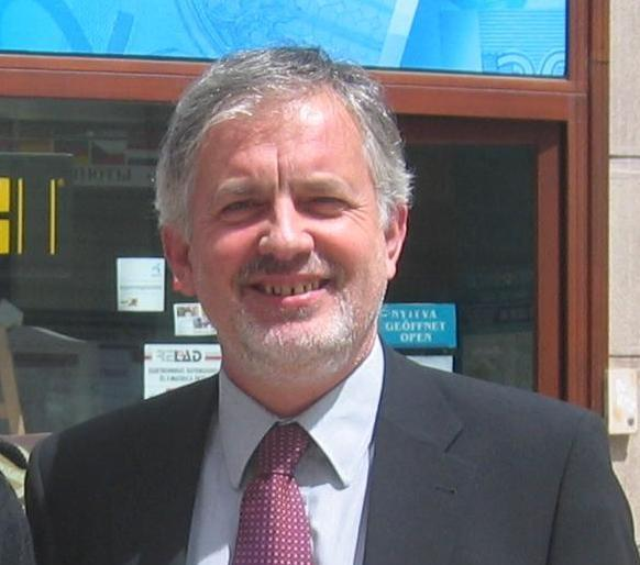 Páva Zsolt, mayor of Pecs, Hungary